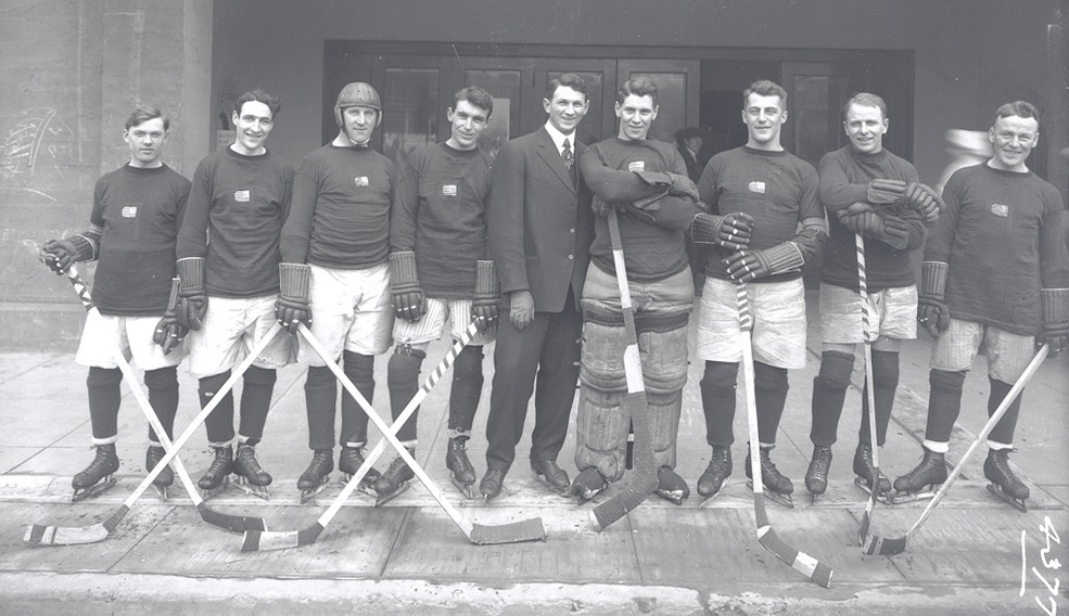 Portland Rosebuds ice hockey team on the sidewalk outside the Portland Ice Arena in the 1914–15 PCHA season. From left to right: Conrad "Connie" Benson, Charles Tobin, Ernie "Moose" Johnson, Wilfred "Smokey" Harris, Pete Muldoon, Ivan "Mike" Mitchell, Eddie Oatman, Ran McDonald, Art Throop.